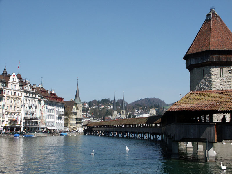 This is taken in Luzern